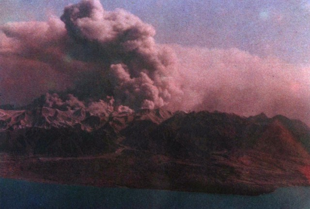 A broad ash plume rises above Colo volcano on the island of Una-Una during the powerful 1983 eruption. Phreatic eruptions began on July 18. All inhabitants of the island were evacuated prior to the paroxysmal eruption at 1623 hrs on July 23, when pyroclastic flows devastated most of the island. Intermittent large explosive eruptions, some producing pyroclastic flows, continued until August 30, and minor ash eruptions lasted until October 10. White and sometimes gray "smoke" was reported November-December, presumably from phreatic eruptions.